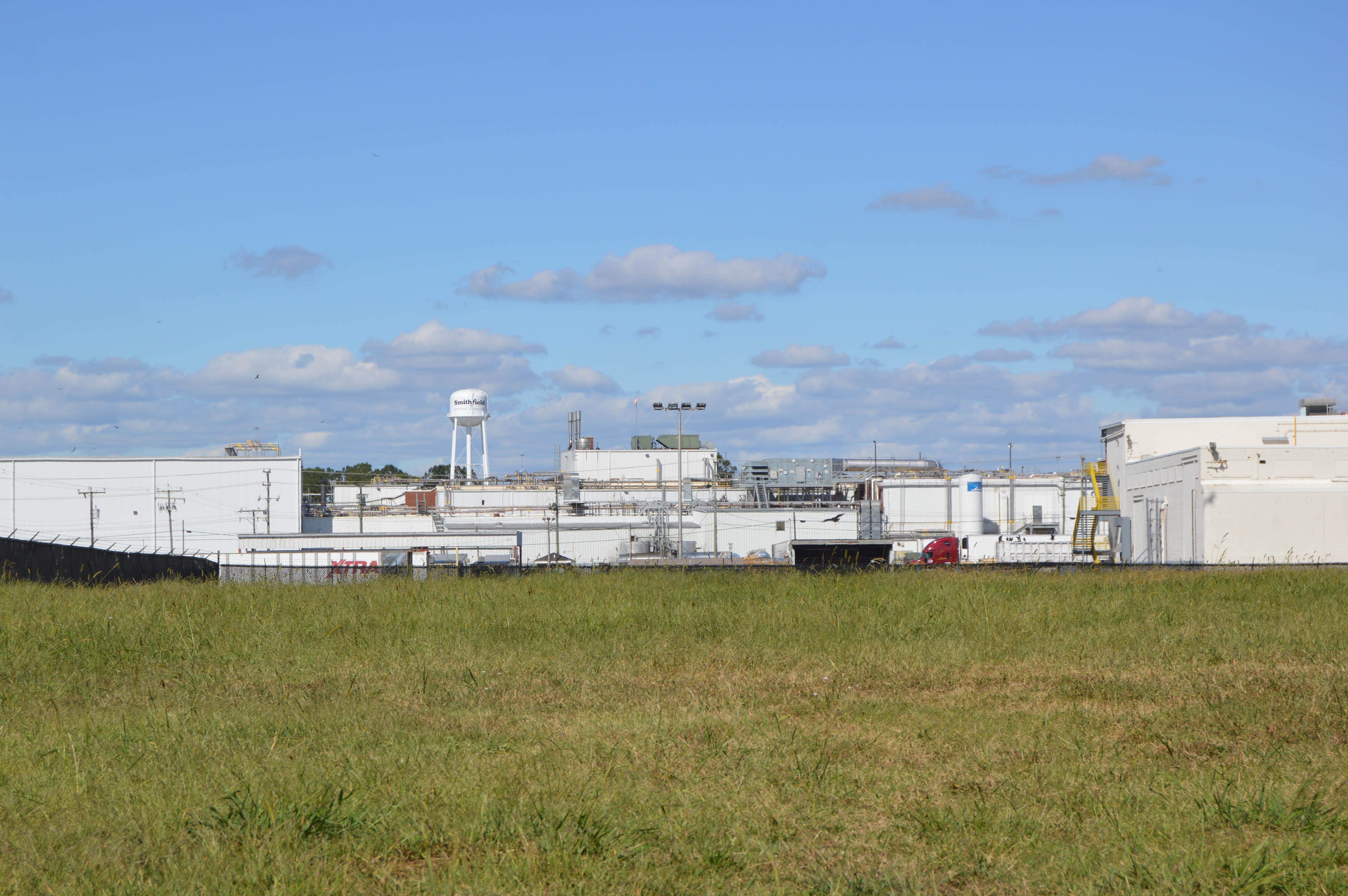 Buildings at a Smithfield Foods meatpacking complex in Smithfield, Virginia, United States. The nondescript facade faces State Route 10, but this photo depicts the southern side of the complex, as seen from the lane going to Ivy Hill Cemetery.